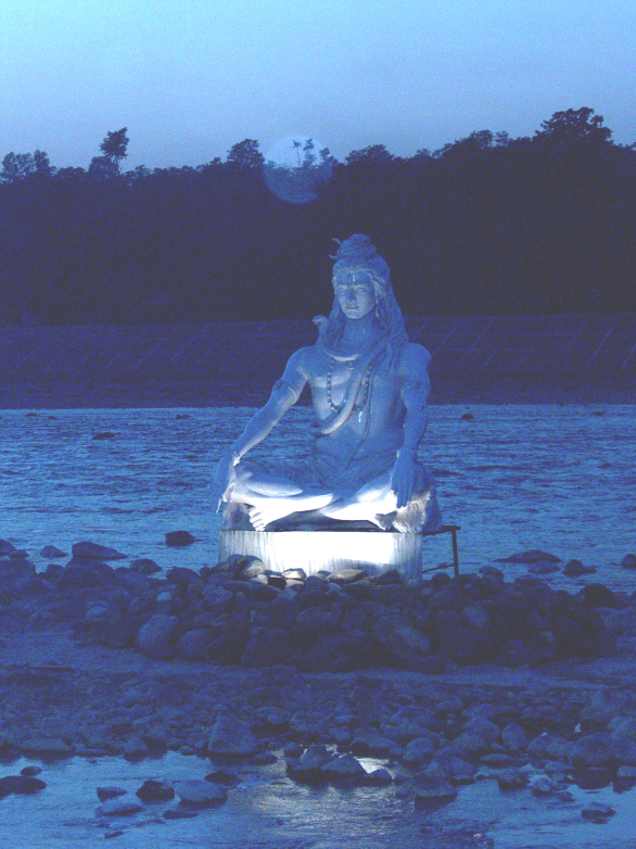 A statue of Shiva in Rishikesh, India. Taken by me, Teemu Kiiski, in December 2005.